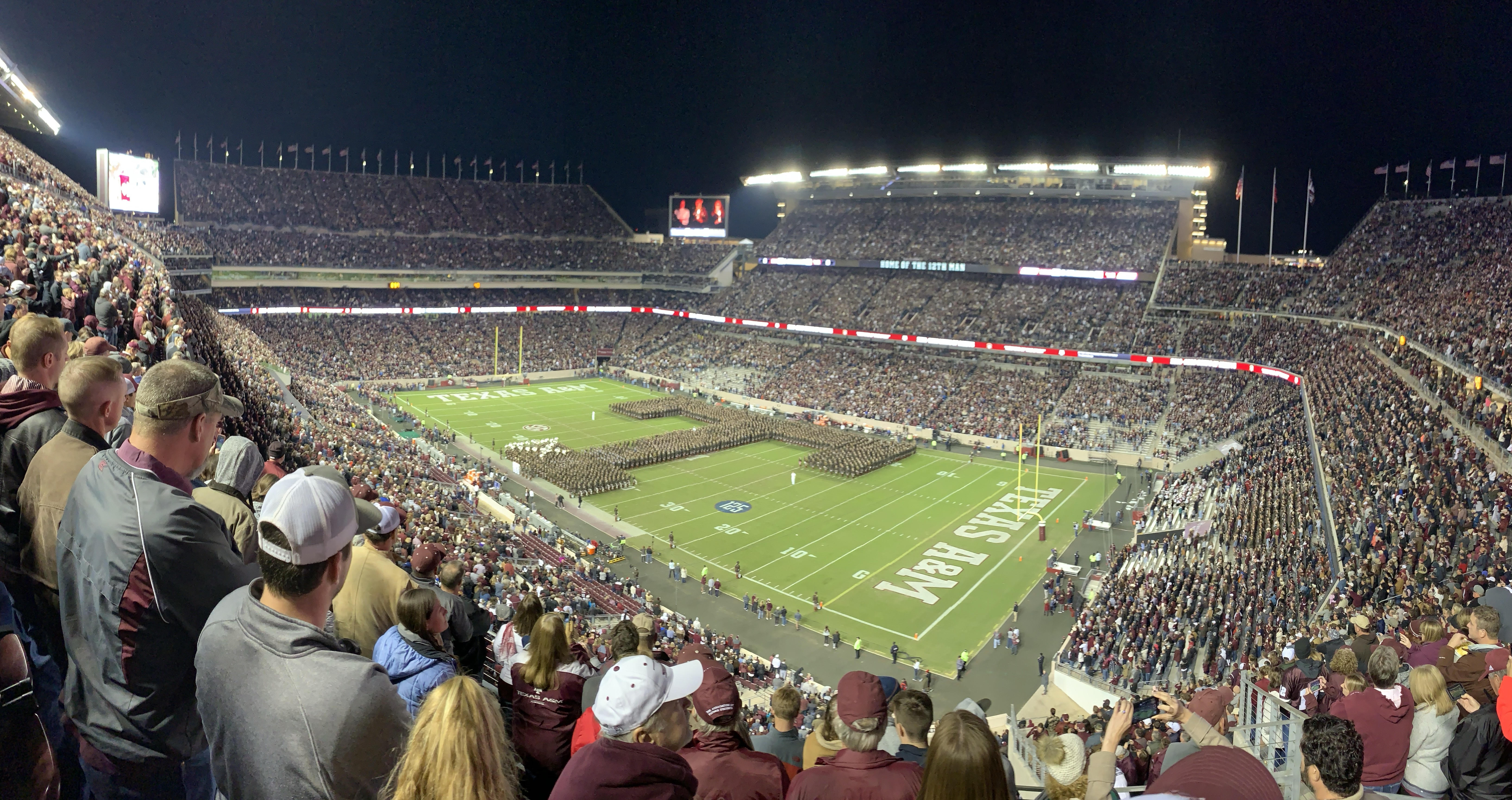 The Texas A&M University Corps of Cadets on Kyle Field at halftime on Nov 16, 2019. The Fightin' Texas Aggie Band forms the base of the "T". The cadets wearing white and not specifically within the block are the Aggie Yell Leaders. Other Cadets on the sidelines are serving as Officers of the Day and guard the field during the halftime performance of the Aggie Band and other functions.